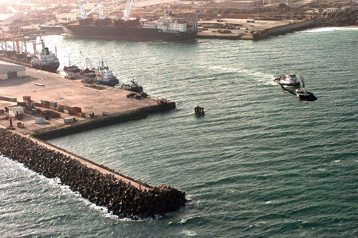 Aerial view of the Port of MOGADISHU. Three cargo ships, large, medium and small sized vessels are moored to the docks. A tugboat is heading out of the port. A US Marine UH-1N "Huey" helicopter flies left to right at the right of the frame. The port played an important role in the support of Operation Restore Hope.